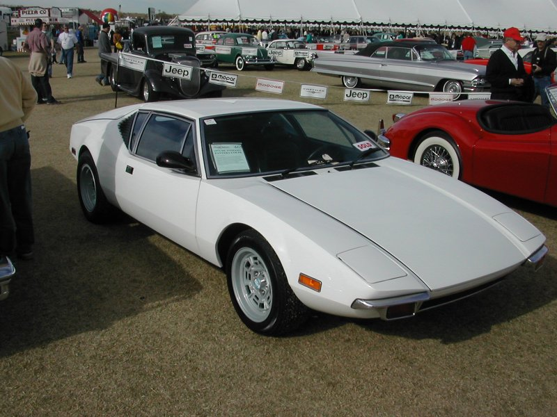 De Tomaso Pantera.